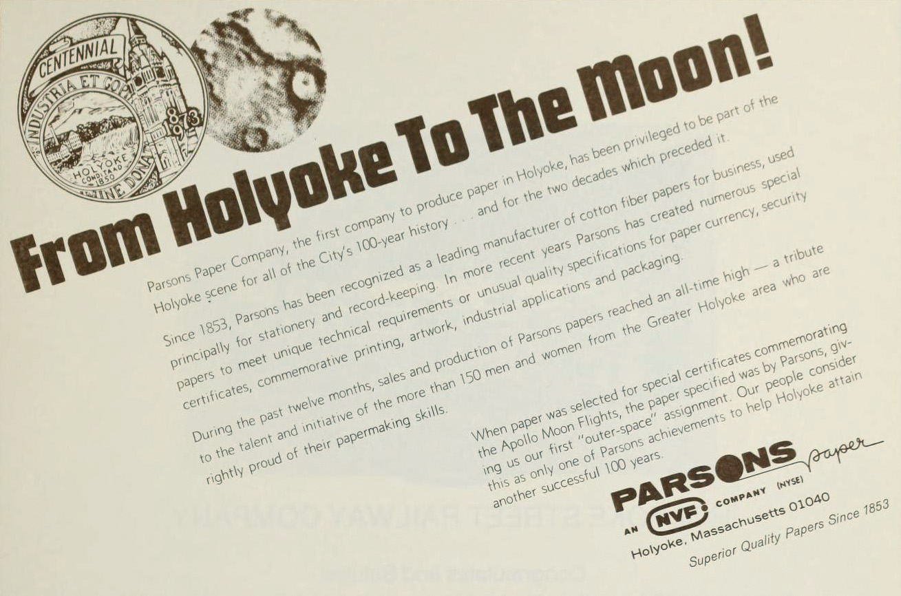 An advertisement for the Parsons Paper Company touting one of the company's contracts with NASA during the Apollo program.